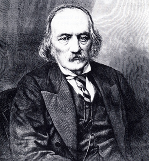 Photograph of a wood engraving from Illustrated London News